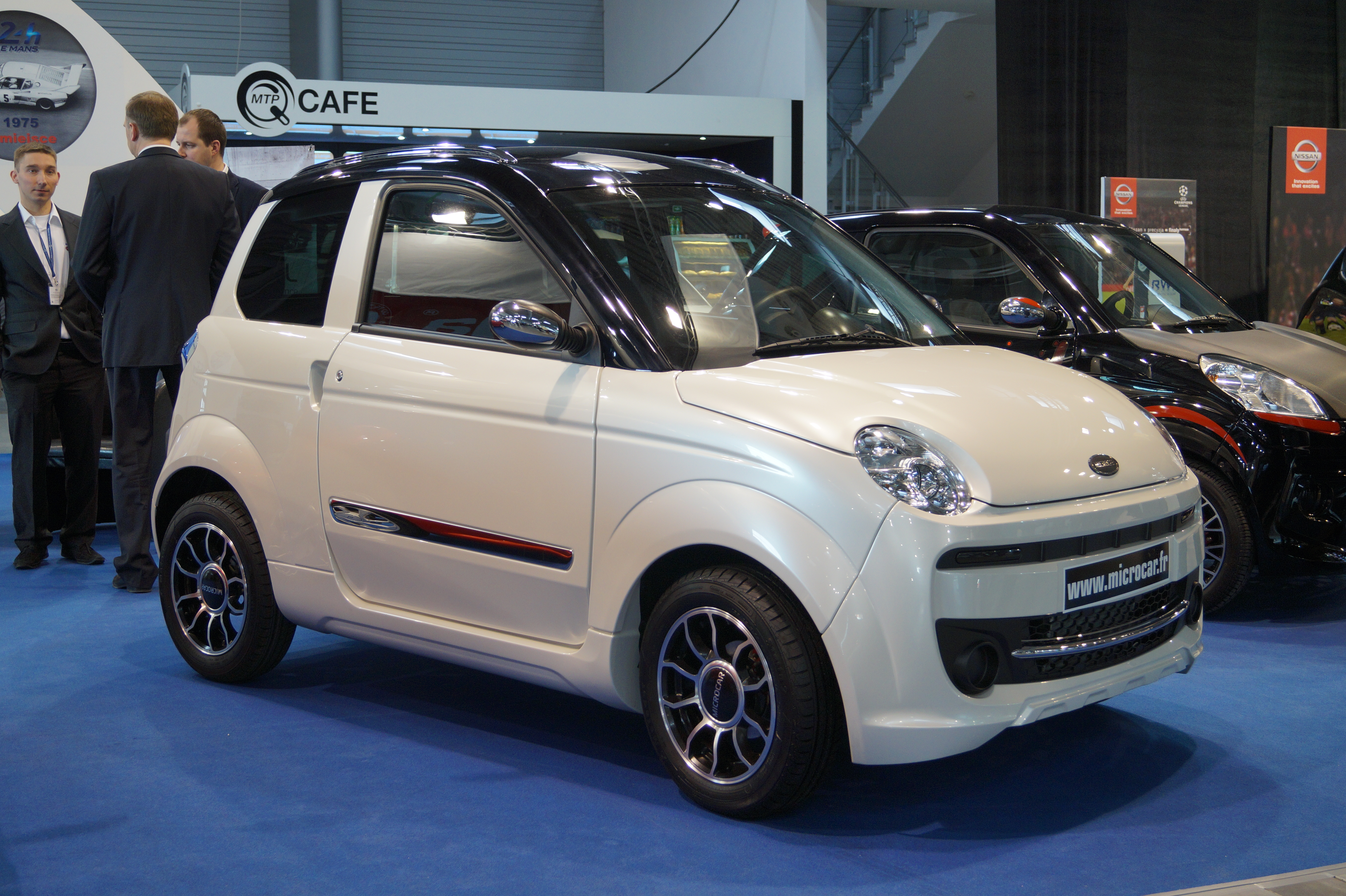 The making of this document was supported by Wikimedia Polska Association, within Wikigrant no. WG 2015-19. English | polski | +/− Microcar M.GO Dynamic na Motor Show Poznań 2015